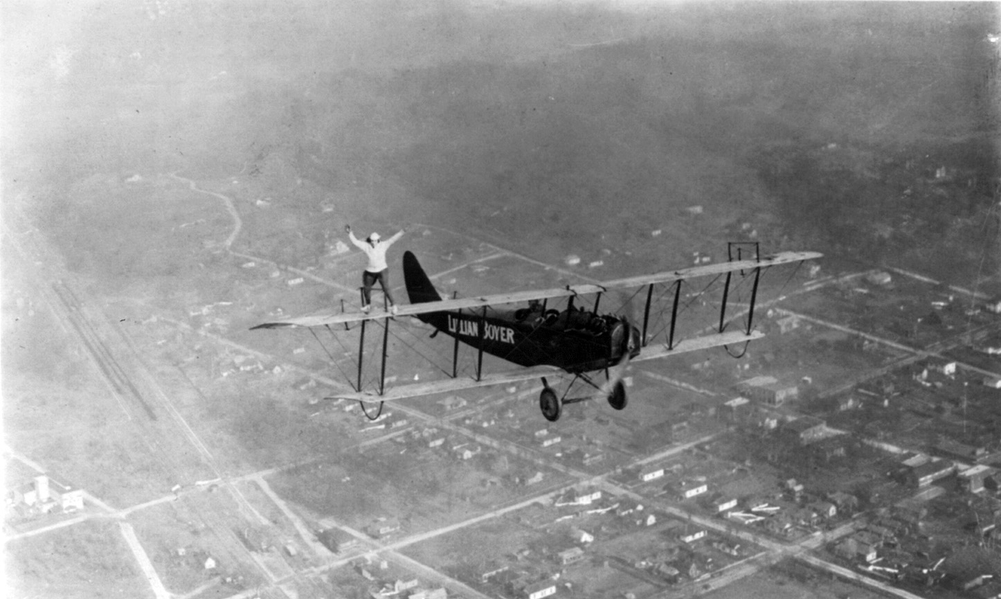 Lillian Boyer, standing on the wing of a flying biplane.